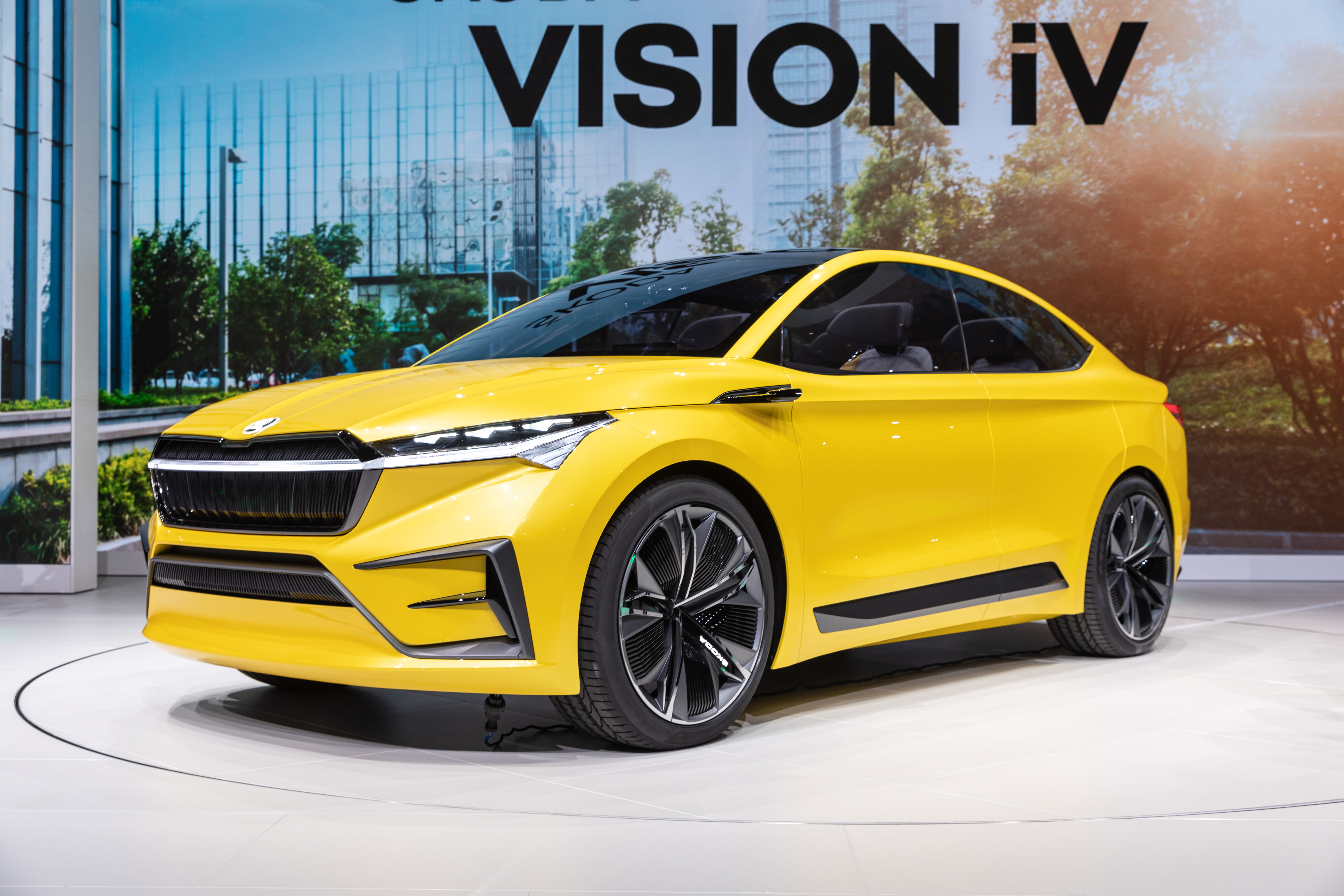 Geneva International Motor Show 2019, Le Grand-Saconnex